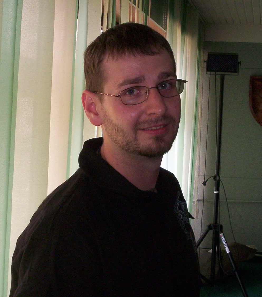 Image of the Slovak author Dušan Fabian, taken at the Parcon 2007 public event